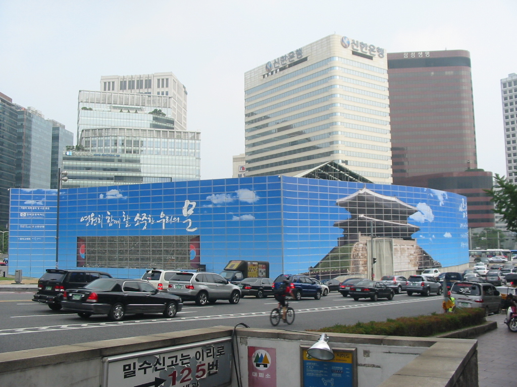 Sungnyemun under repair.